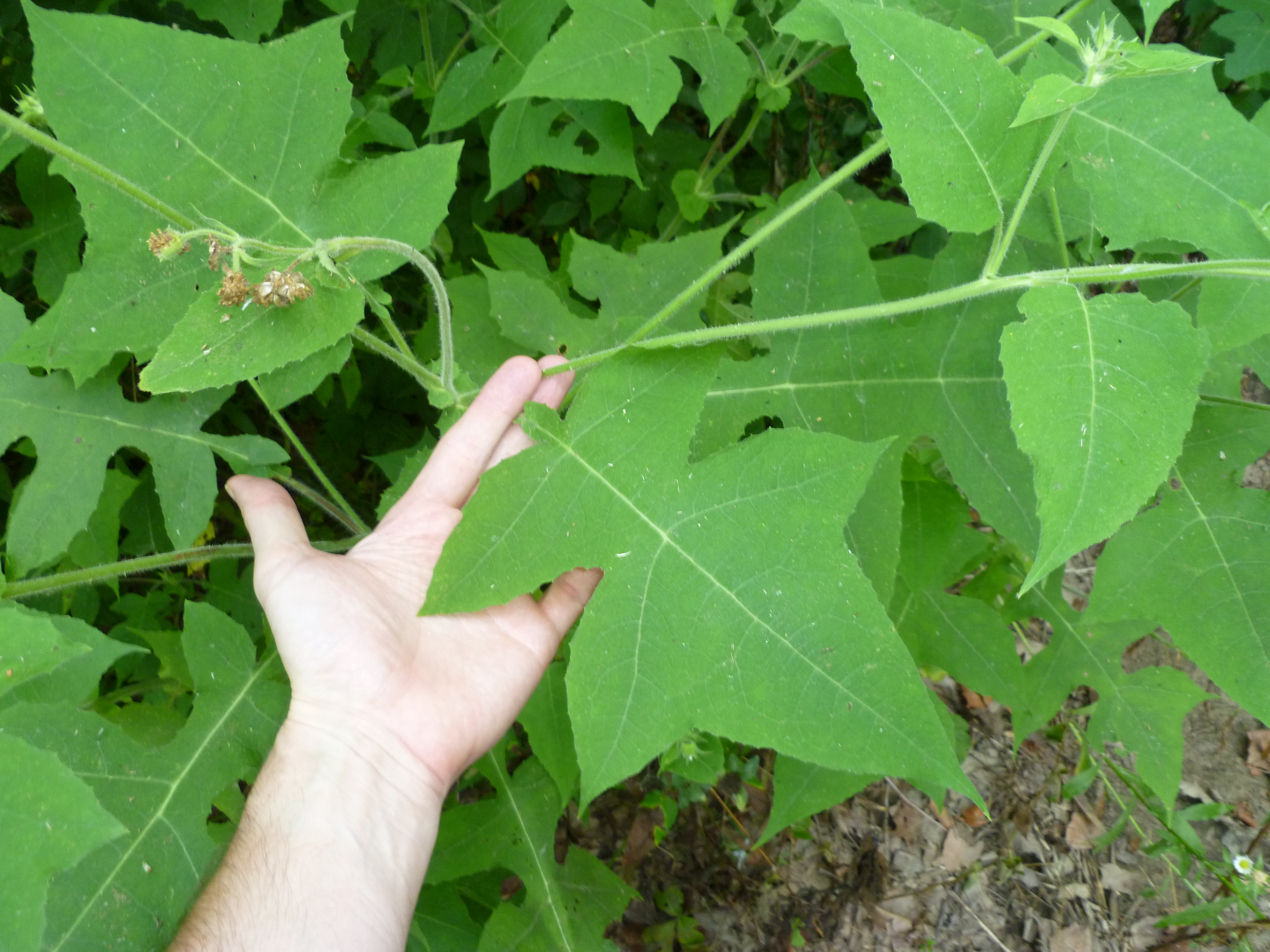 Bears foot leaf identification